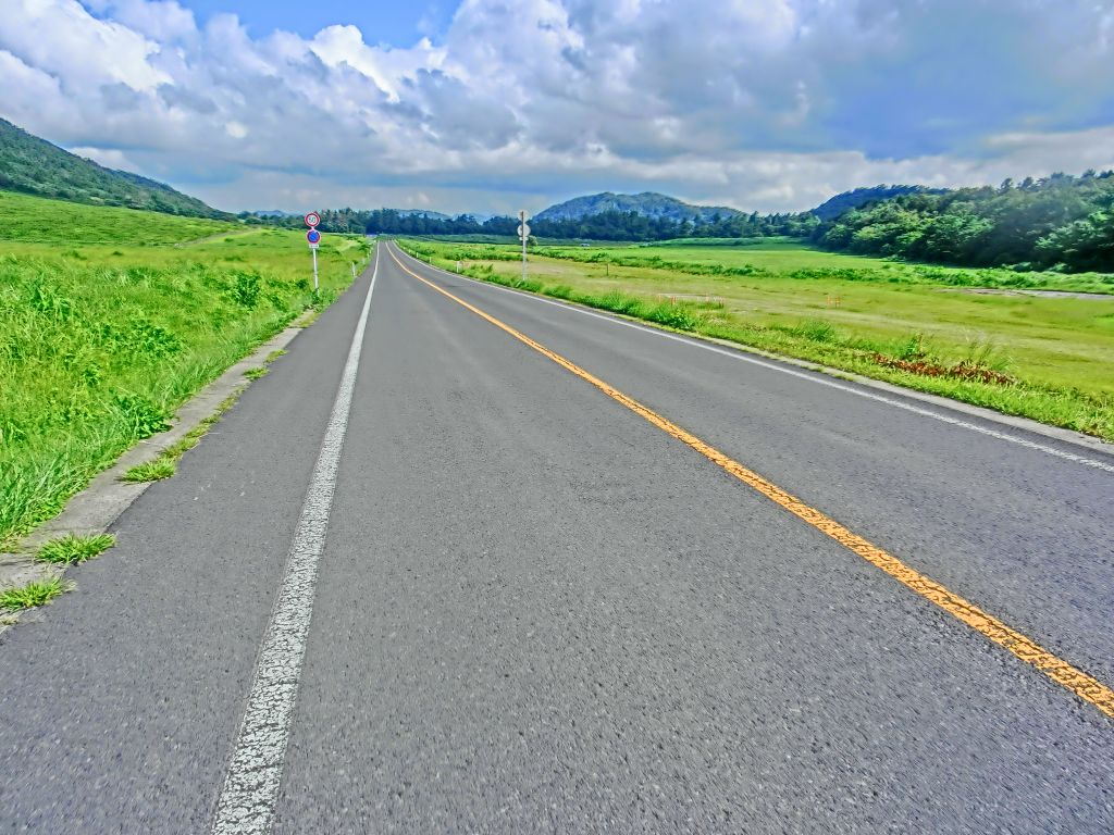 Sanbeyama Dai-ichi Kogen Doro ("Mount Sanbe First Highland Road") in Shimane Prefecture, Japan